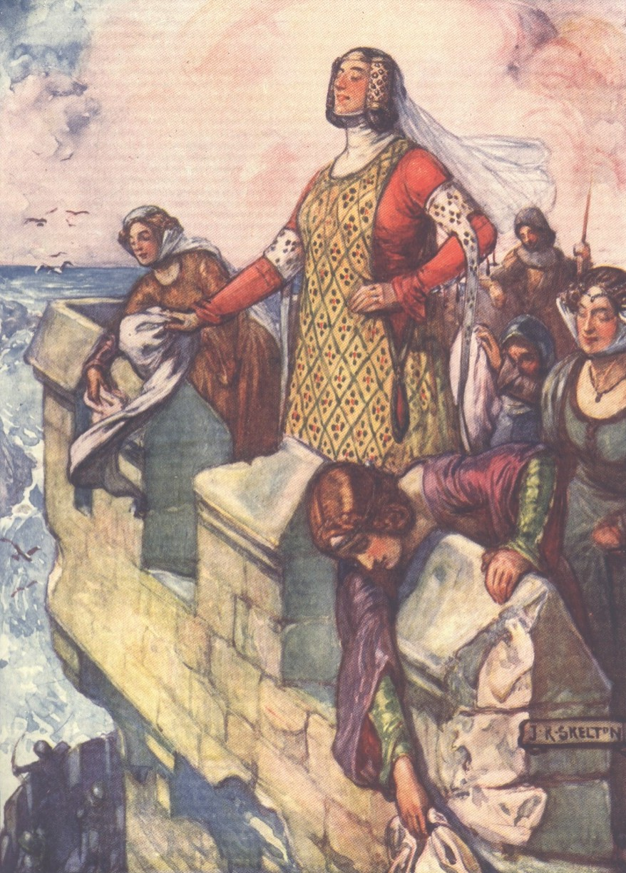 A depiction of 'Black Agnes' in H E Marshall's 'Scotland's Story', published in 1906.